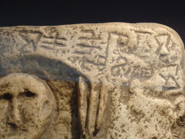 The Plomin tablet, Croatian Glagolitic monument from the 11th century.